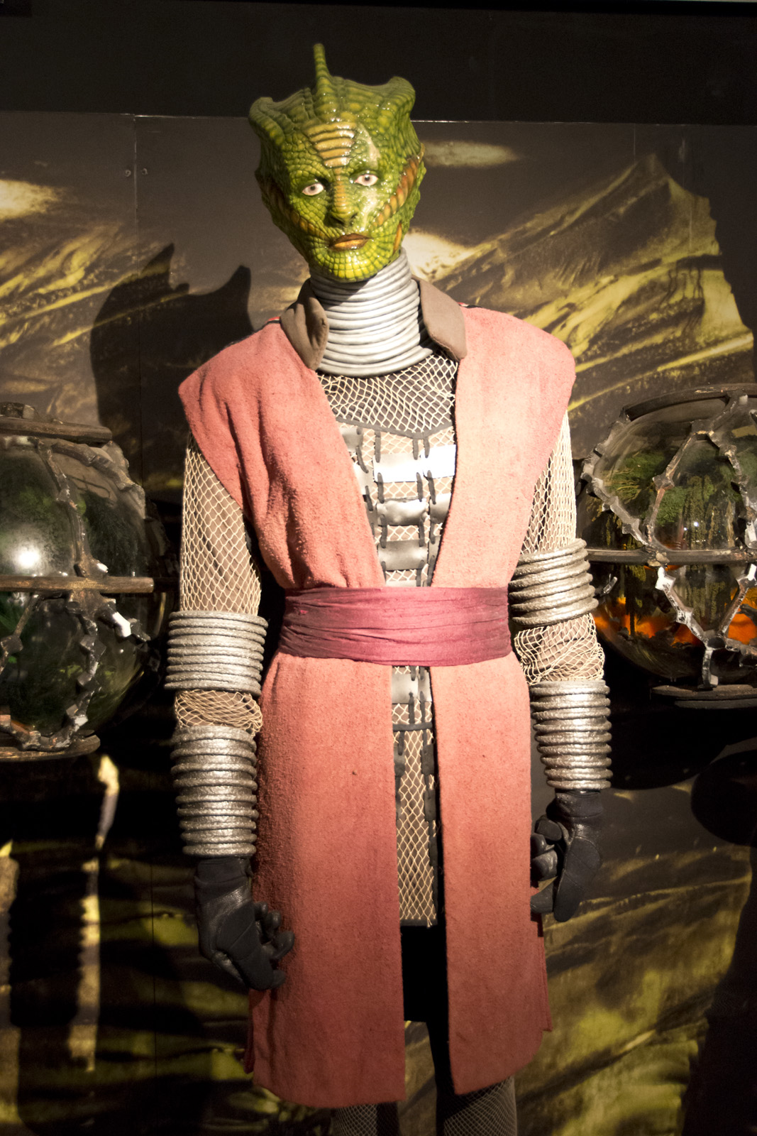 Doctor Who Experience